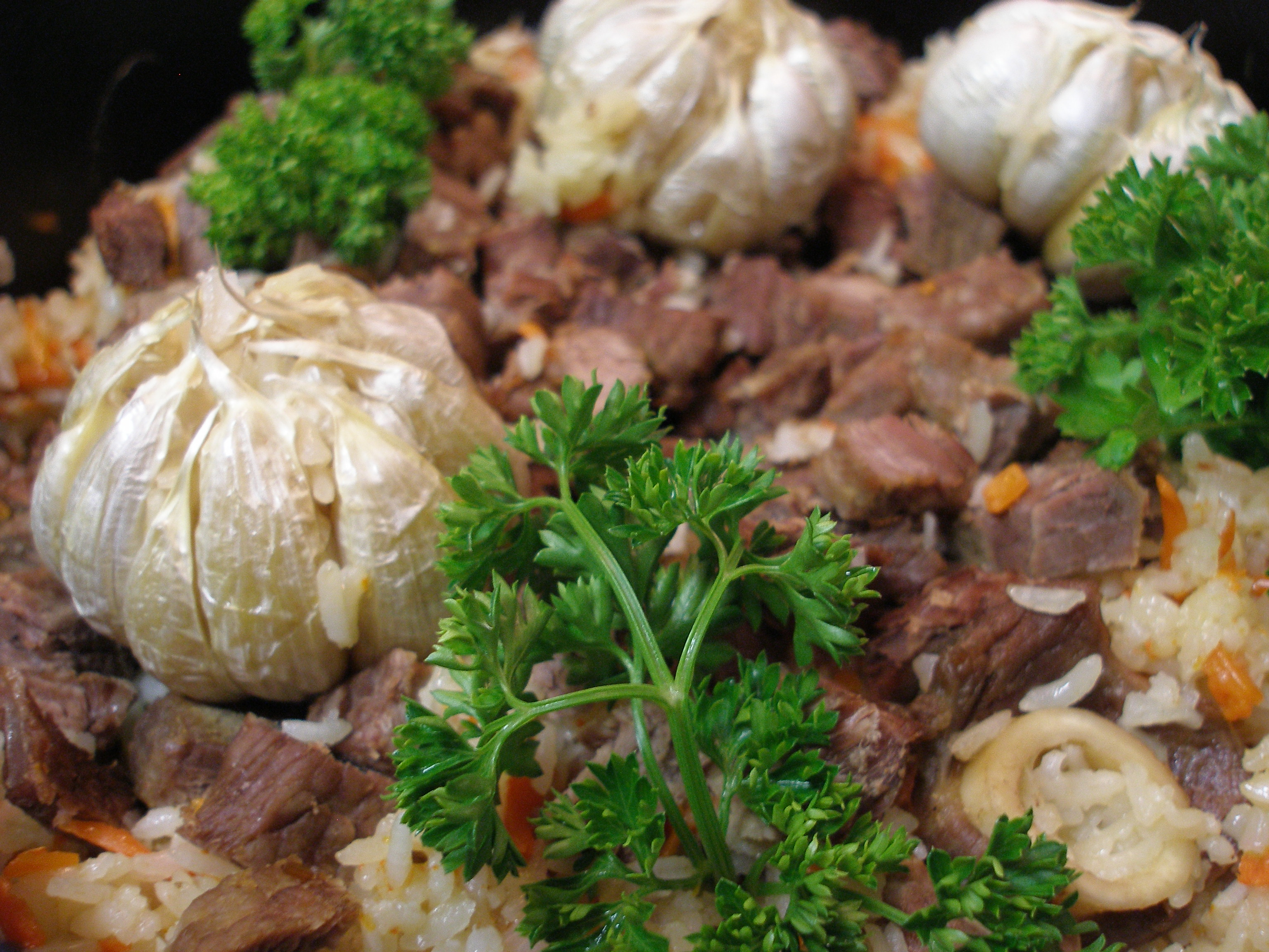 Uyghur-style pilaf